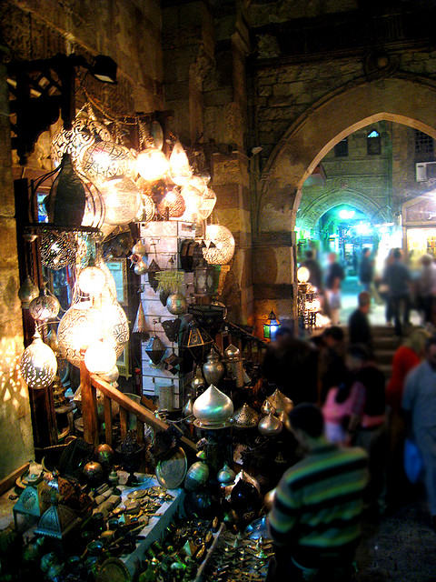 An old chandeliers shop at Khan el-Khalili (souk) in Cairo.